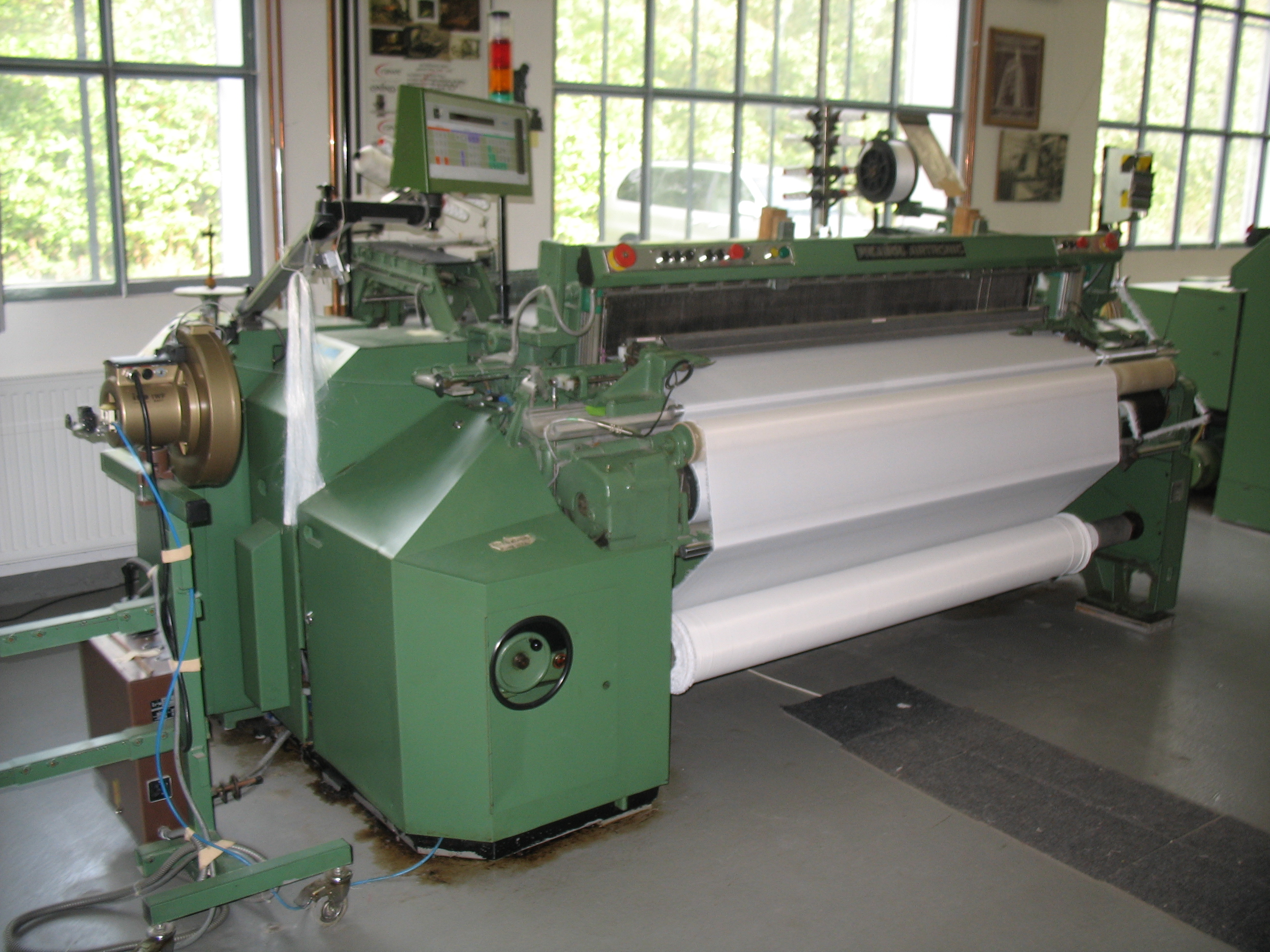 Air jet loom (year of constr. 1988) in City Museum of Nordhorn, Germany